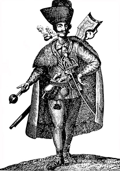 Serb soldier (frontiersman) in Syrmia in 1742.